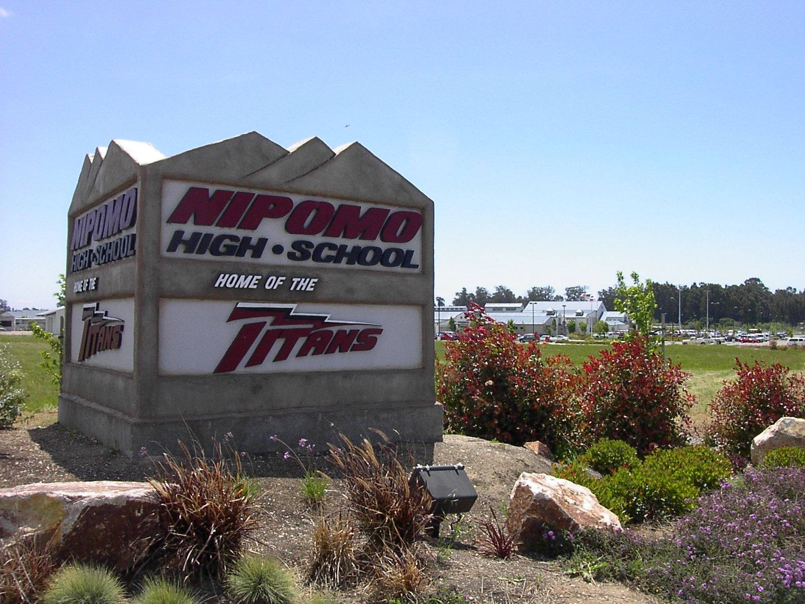 The front of Nipomo High School, Nipomo, CA. Taken May 2005 by John Perreault.